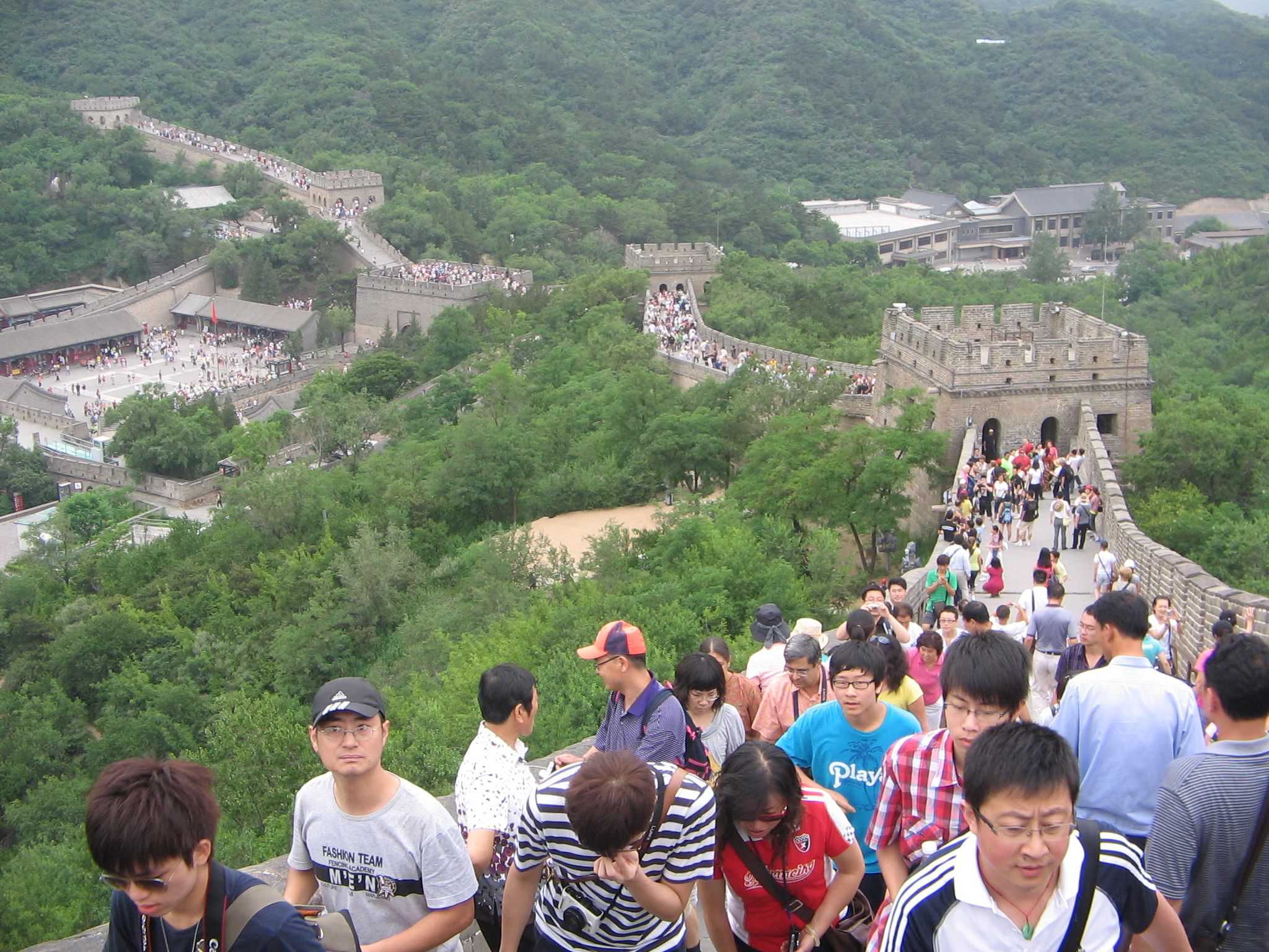 Great wall of china